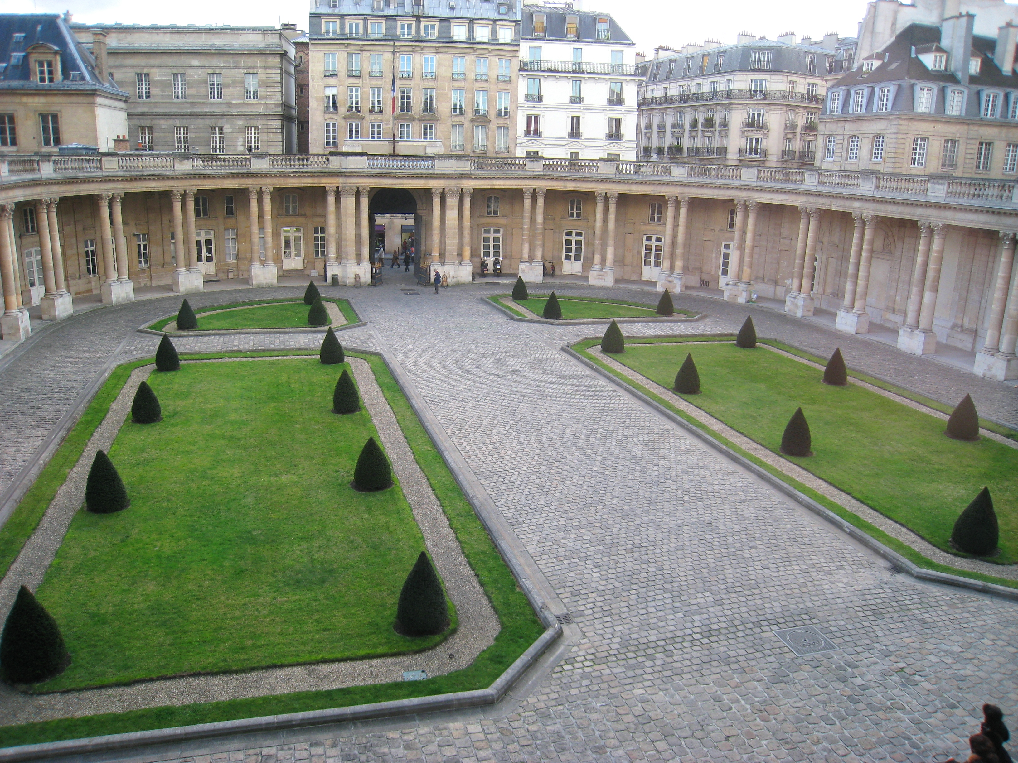 Hôtel de Soubise, Paris, France - courtyard viewed from hôtel's second floor.